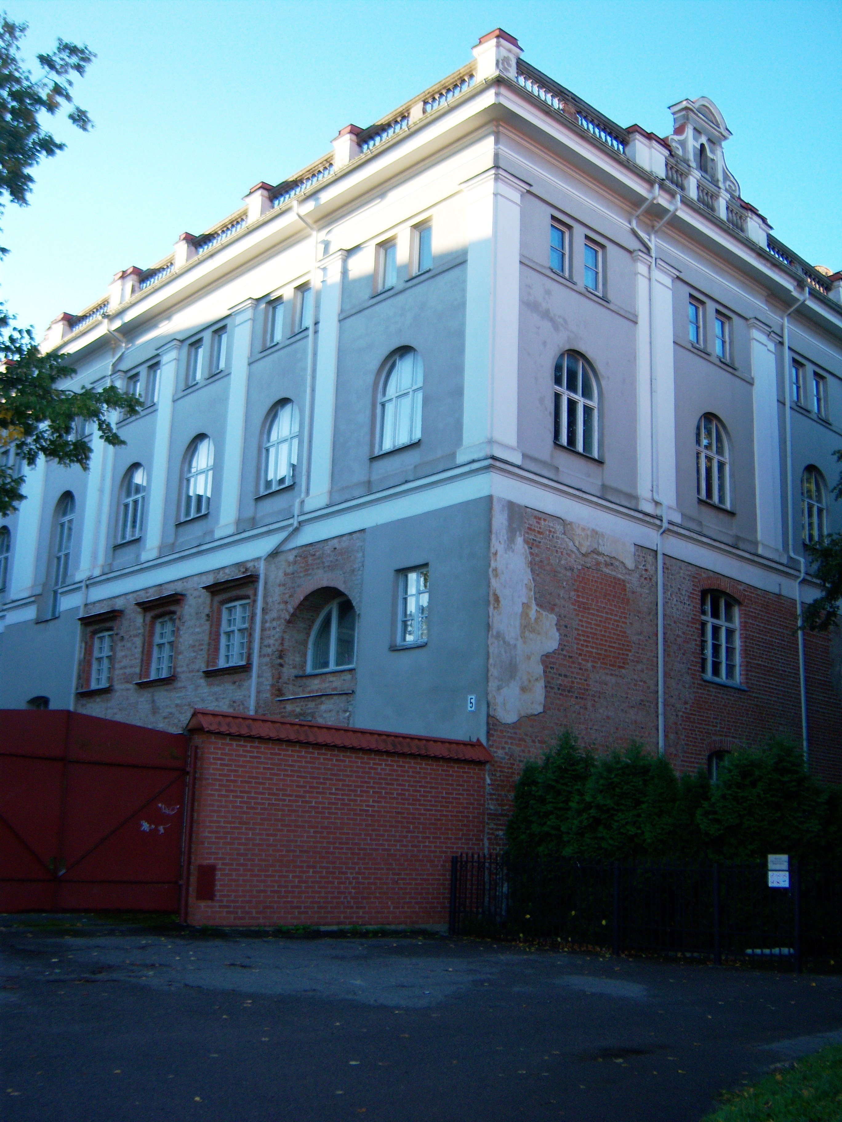 Former Stasys Šalkauskis College, Kaunas, Lithuania